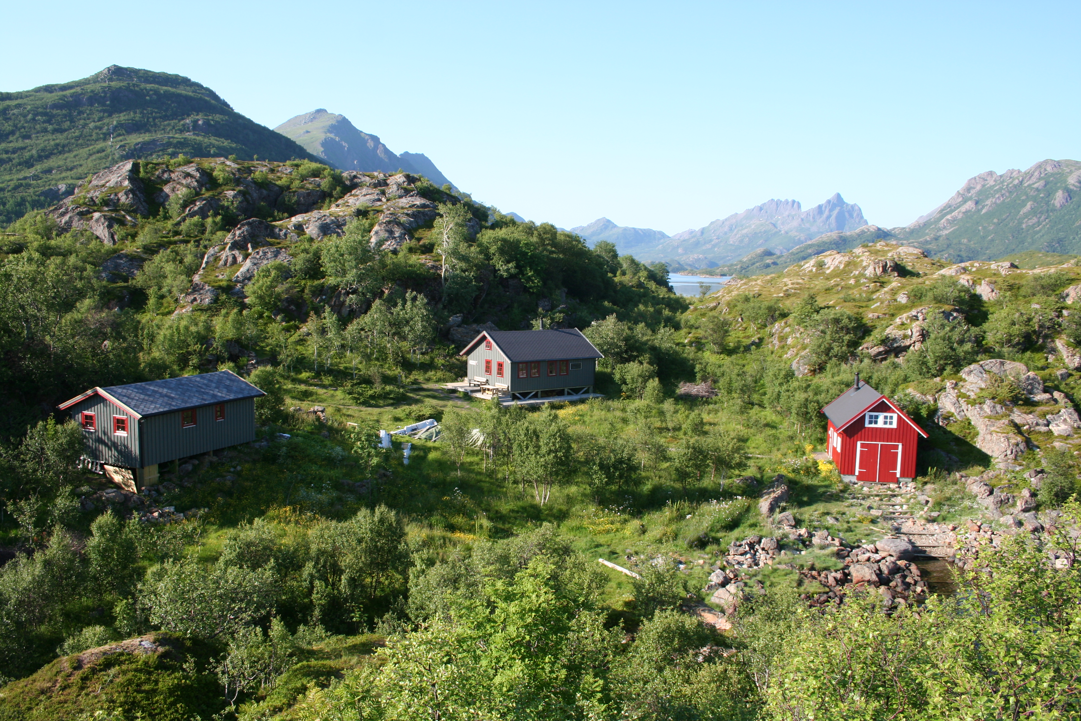 Guvåghytta in Bø (Nordland), Norway. The main cabin in the middle. This photo was taken by me